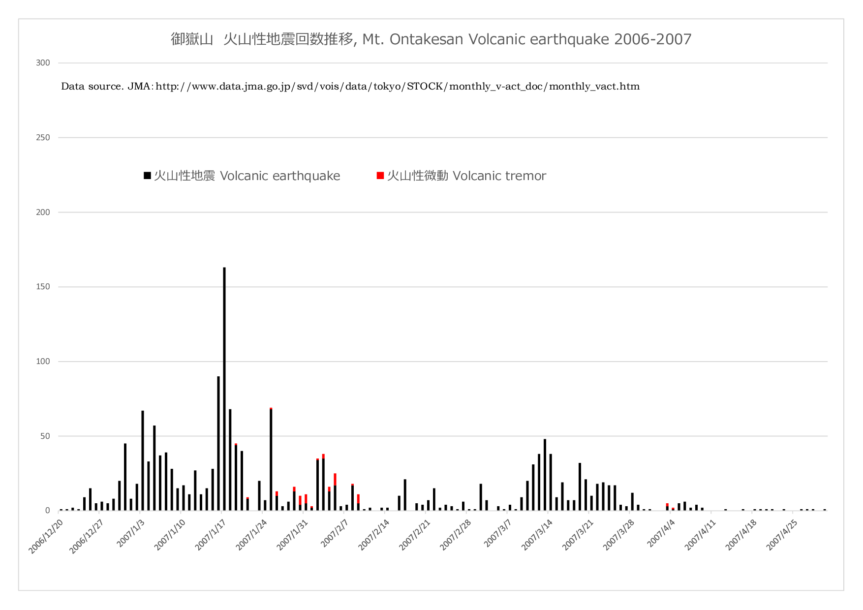 Mt. ONTKESAN Number-of-times transition of a volcanic earthquake '2006-2007